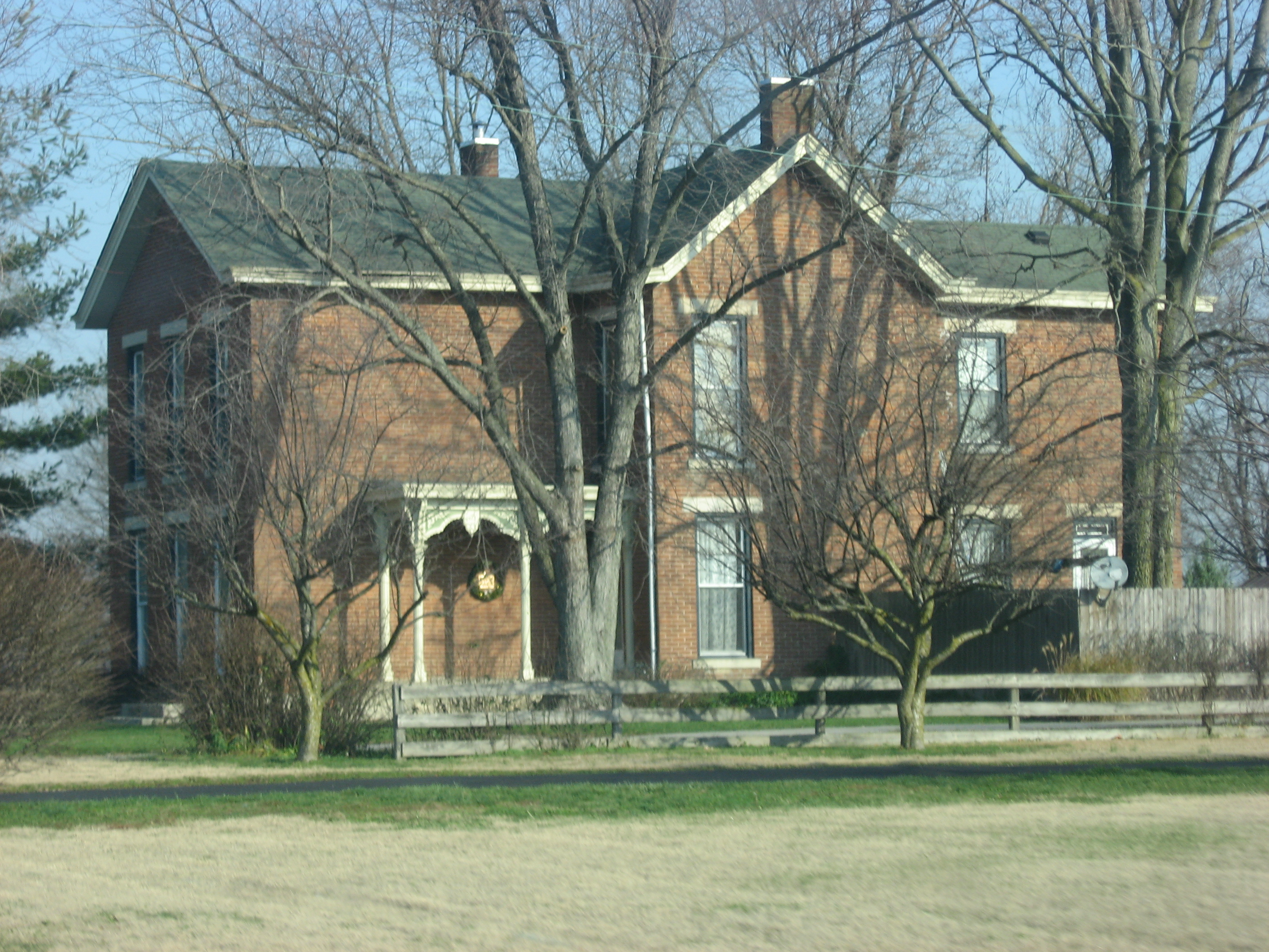 Southern side and front of the David Aikens Farmhouse, located at 2325 Jonesville Road (State Road 11) south of Columbus in Columbus Township, Bartholomew County, Indiana, United States. Built in 1877, it is listed on the National Register of Historic Places.